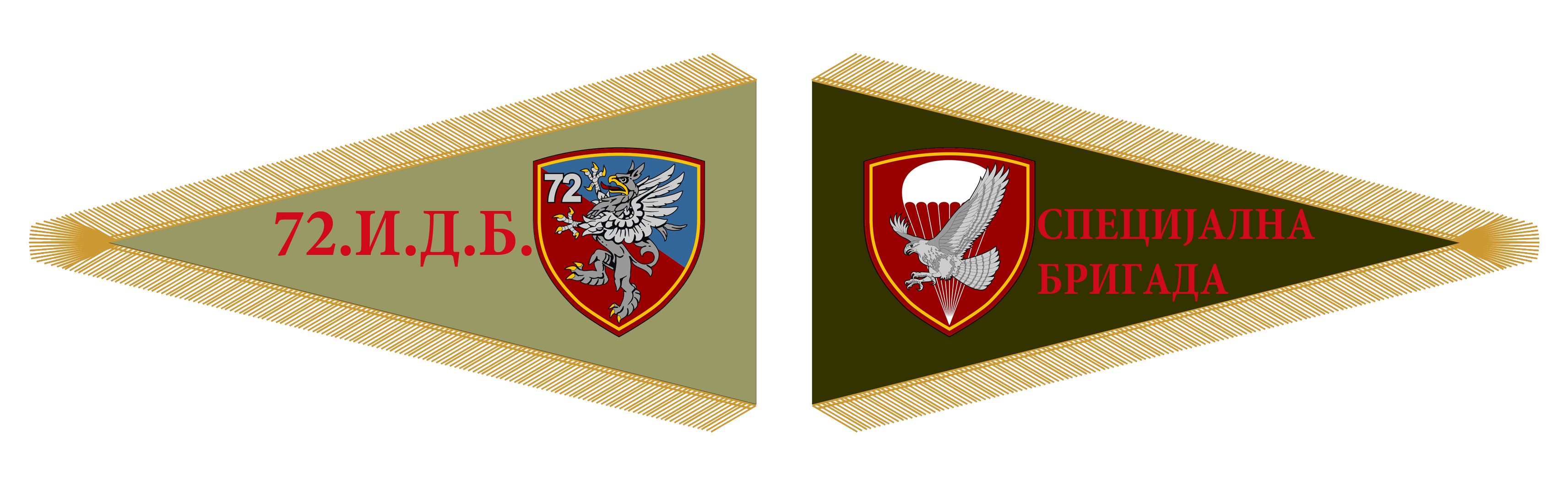 Pennant of Serbian Army Unit